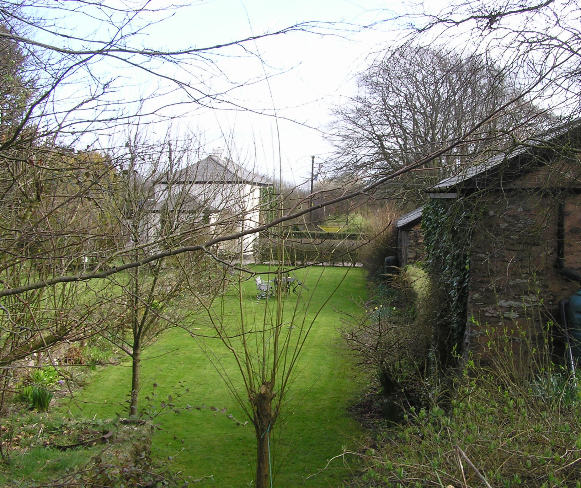 West Somerset Mineral Railway station building and alignment at Gupworthy, UK